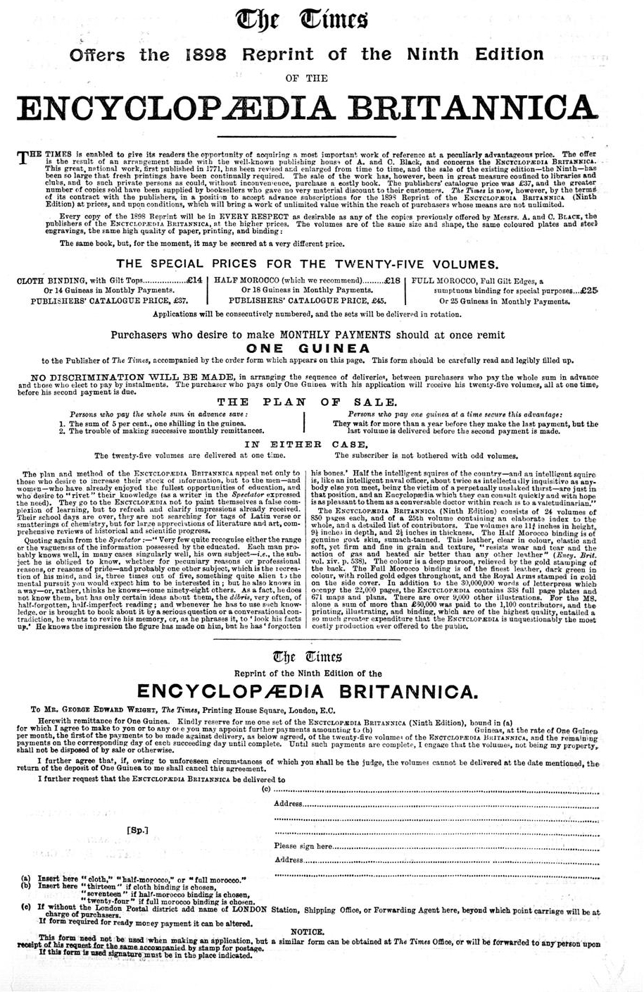 Advertisement for Encyclopaedia Britannica in The Spectator 23 April 1898